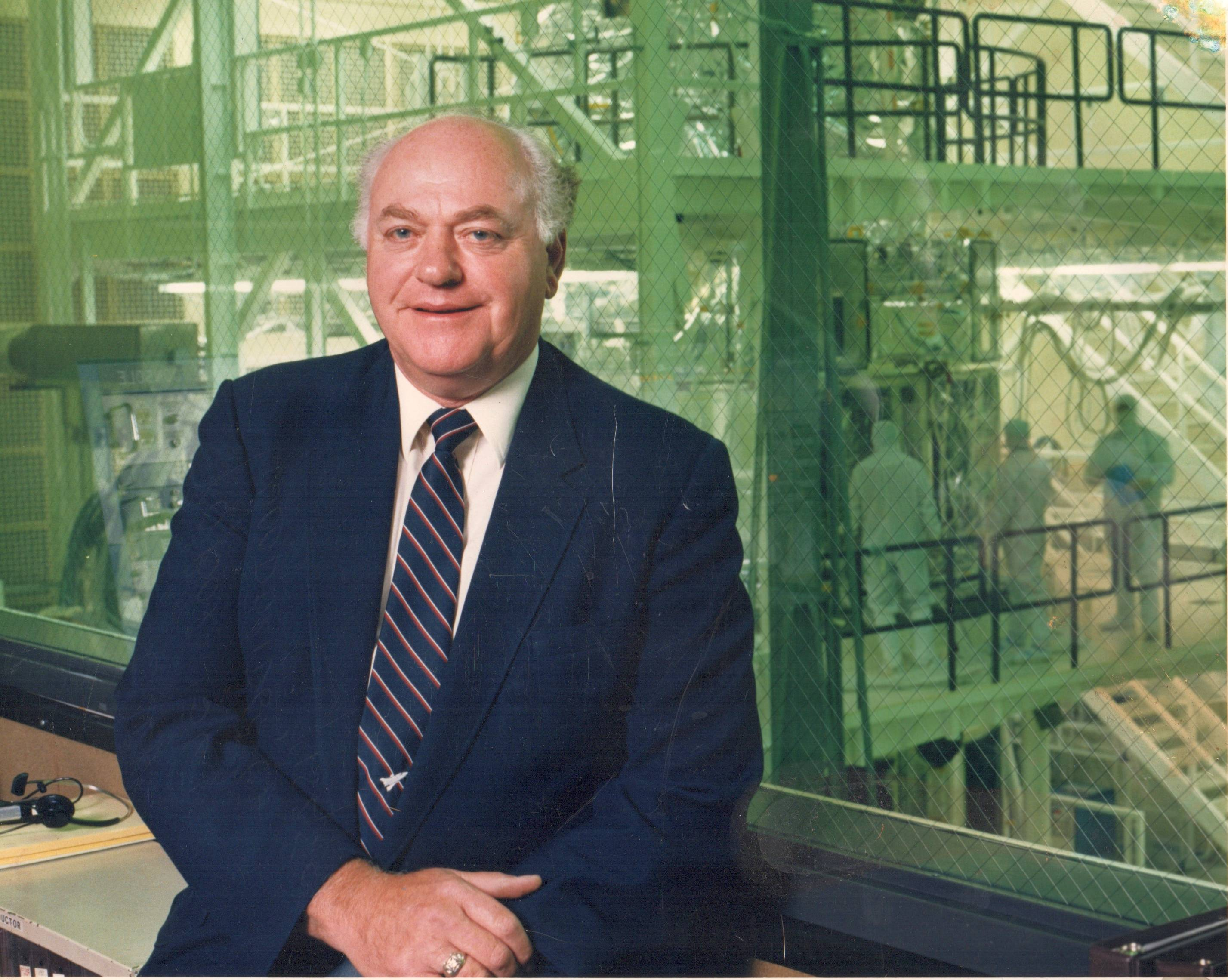 Bert Bulkin in front of the "clean room" for the Hubble Space Telescope during assembly at Lockheed Missiles and Space Company, Sunnyvale, California, about 1989